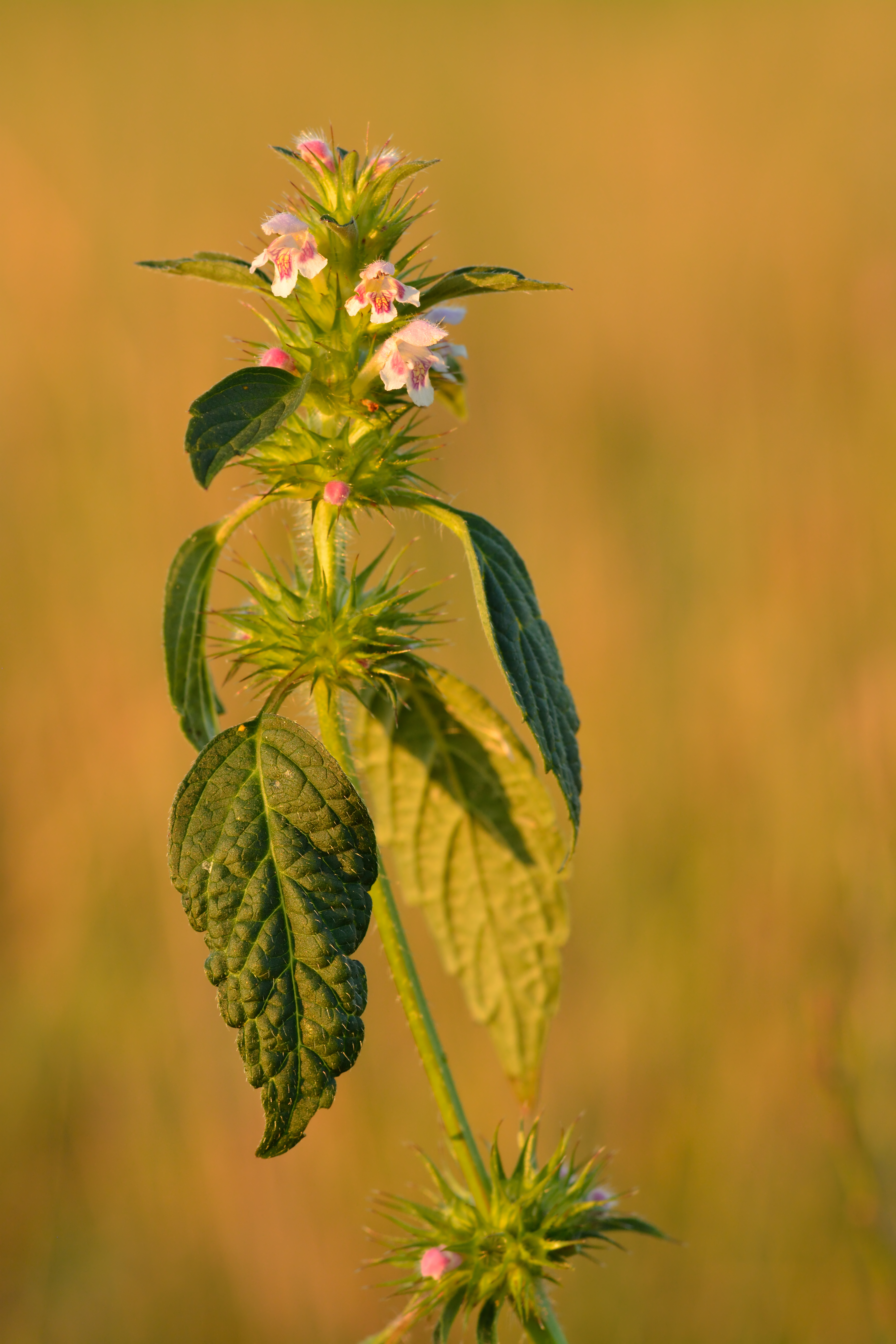 Galeopsis tetrahit - common Hemp-nettle in Keila, Northwestern Estonia.